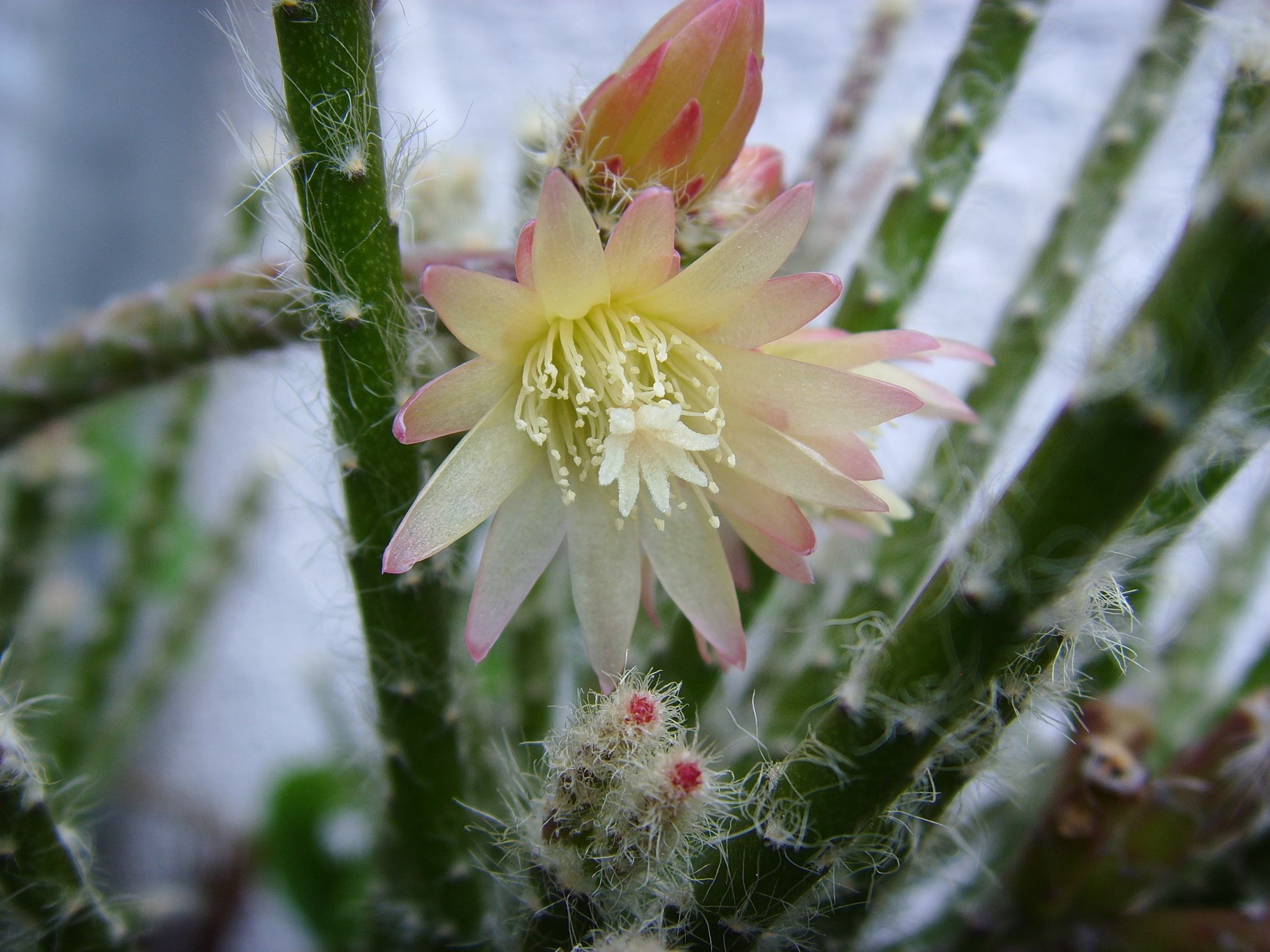 Flowers of Rhipsalis pilocarpa (Cactaceae)